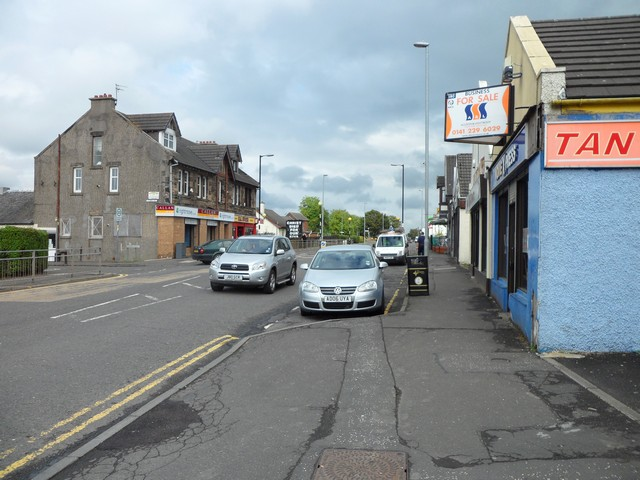 Muirhead